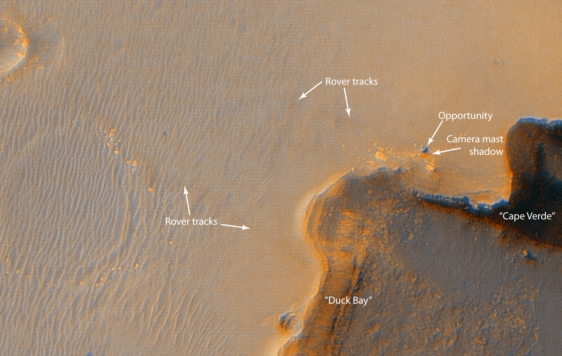 Summary- Mars Rover "Opportunity" at Victoria crater, as viewed from orbit on October 3, 2006. Note the shadow of the rover's camera mast. Original JPL site caption: "This image from the High Resolution Imaging Science Experiment on NASA's Mars Reconnaissance Orbiter shows the Mars Exploration Rover Opportunity near the rim of "Victoria Crater." Victoria is an impact crater about 800 meters (half a mile) in diameter at Meridiani Planum near the equator of Mars. Opportunity has been operating on Mars since January, 2004. Five days before this image was taken, Opportunity arrived at the rim of Victoria, after a drive of more than 9 kilometers (over 5 miles). It then drove to the position where it is seen in this image. Shown in the image are "Duck Bay," the eroded segment of the crater rim where Opportunity first arrived at the crater; "Cabo Frio," a sharp promontory to the south of Duck Bay; and "Cape Verde," another promontory to the north. When viewed at the highest resolution, this image shows the rover itself, wheel tracks in the soil behind it, and the rover's shadow, including the shadow of the camera mast. After this image was taken, Opportunity moved to the very tip of Cape Verde to perform more imaging of the interior of the crater. This view is a portion of an image taken by the High Resolution Imaging Science Experiment (HiRISE) camera onboard the Mars Reconnaissance Orbiter spacecraft on Oct. 3, 2006. The complete image is centered at minus7.8 degrees latitude, 279.5 degrees East longitude. The range to the target site was 297 kilometers (185.6 miles). At this distance the image scale is 29.7 centimeters (12 inches) per pixel (with 1 x 1 binning) so objects about 89 centimeters (35 inches) across are resolved. North is up. The image was taken at a local Mars time of 3:30 PM and the scene is illuminated from the west with a solar incidence angle of 59.7 degrees, thus the sun was about 30.3 degrees above the horizon."